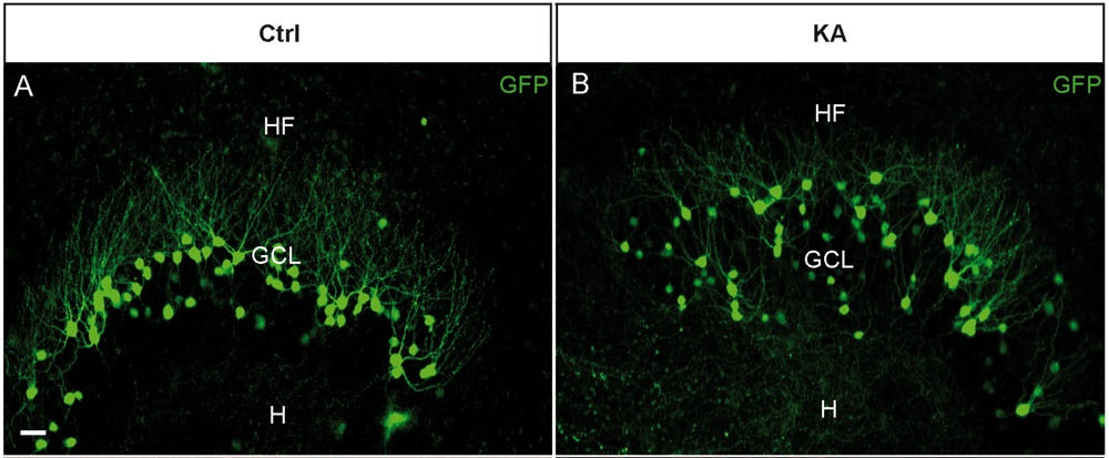 Dispersion of dentate gyrus granule cells after application of kainic acid